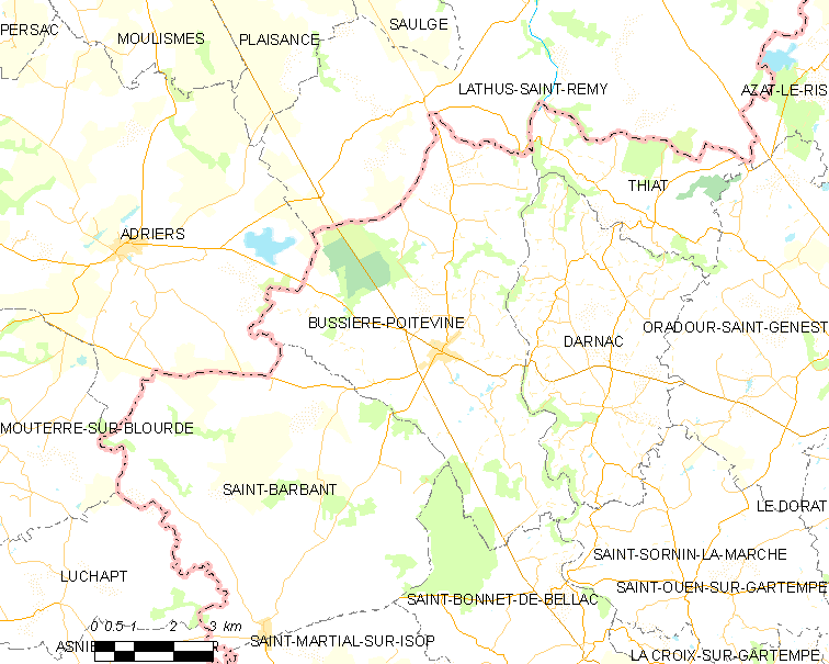 Map of French municipality Bussière-Poitevine